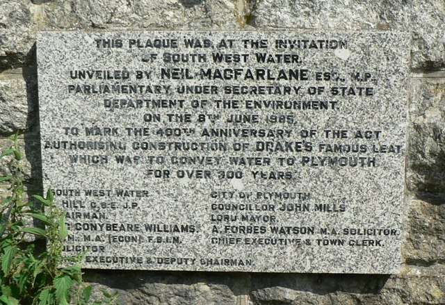 Plaque commemorating Drake's Leat, Burrator Dam. This plaque is on the wall by the side of the road approaching the dam from the south. When Sir Francis Drake was Mayor of Plymouth, he proposed a leat to supply water from Dartmoor to Plymouth, and the required Act of Parliament was passed in 1585. The plaque celebrates the 400th anniversary of the Act. See also 238491